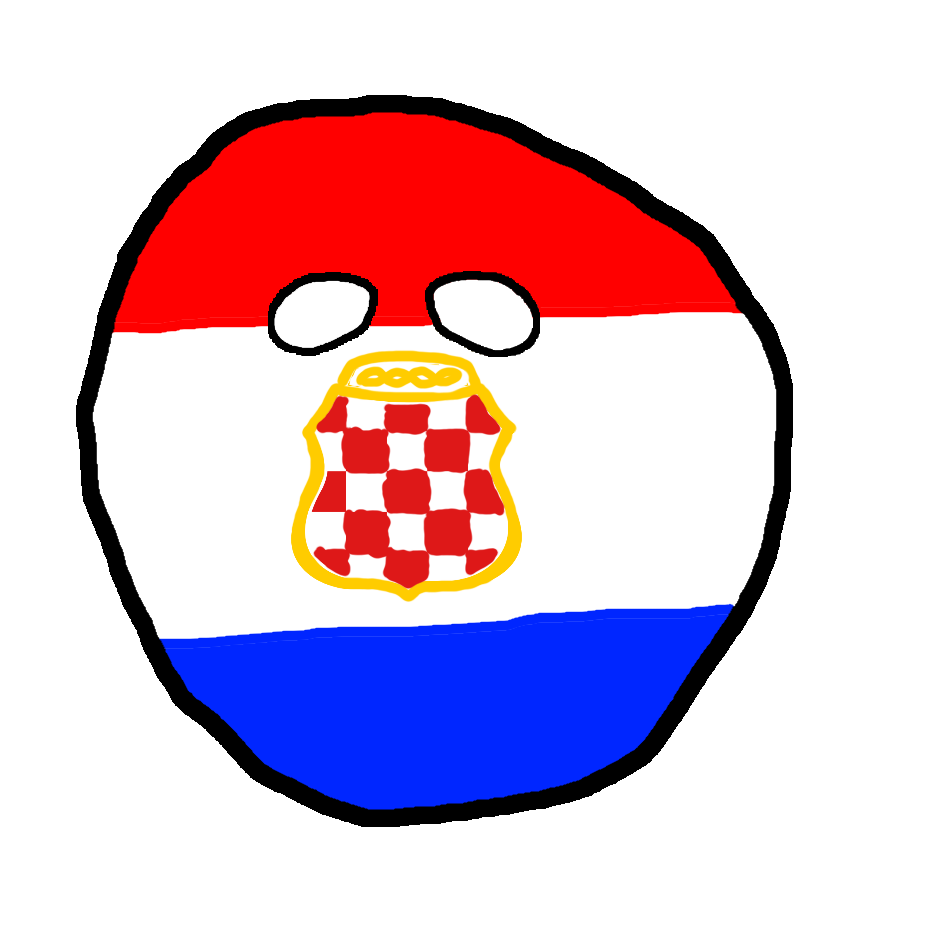 Korisnički generiran prikaz Herceg-Bosne u Polandball stilu